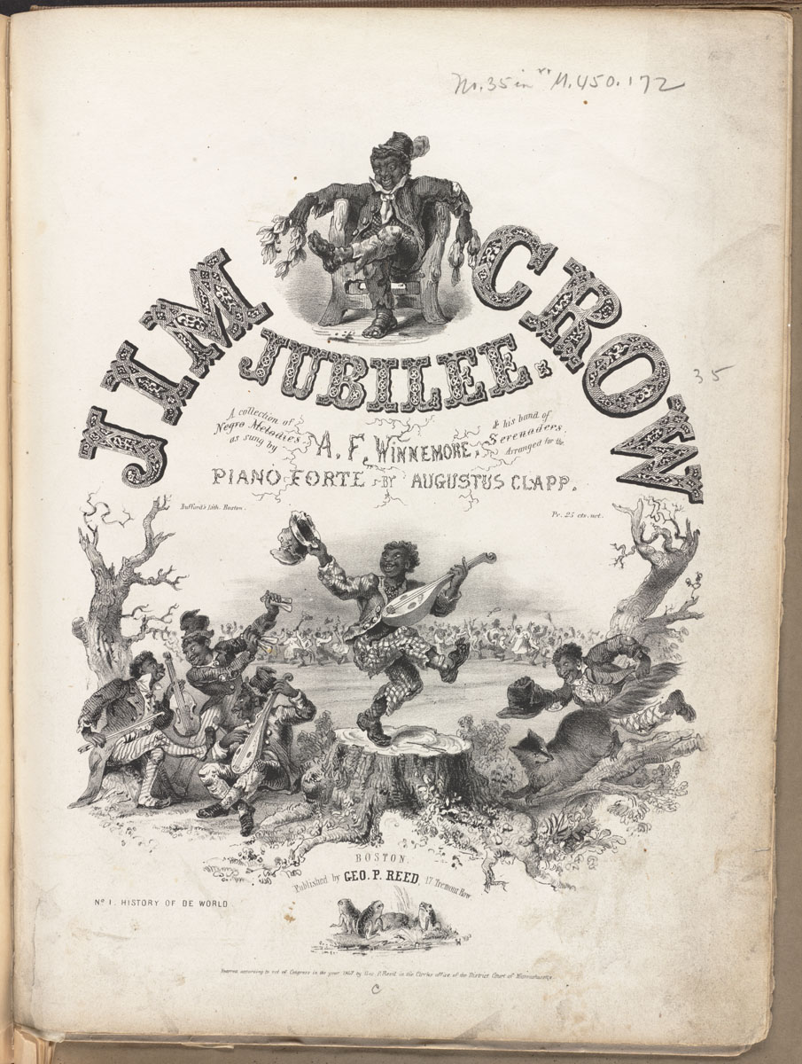 Accession No.: 07_07_000093 Call Number: no. 35 of **M.450.172 Lithographer: Bufford, John H. Title of Lithograph: Jim Crow Jubilee Composer: Clapp, Augustus Title of Composition: History ob de World Place of Publication: Boston Publisher: Geo. P. Reed Date: 1847 BPL Department: Music Flickr data on 2011-08-05: Camera: Sinar AG Sinarback 54 FW, Sinar m Tags: Minstrelsy, dc:identifier=07_07_000093 License: CC BY 2.0 User: Boston Public Library BPL